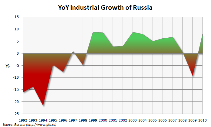 Year-on-year industrial growth chart for Russia. Sources used: [1][2]